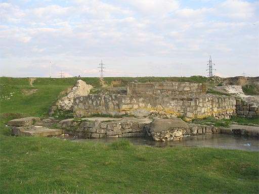 Medieval village in Giurgiu, Romania